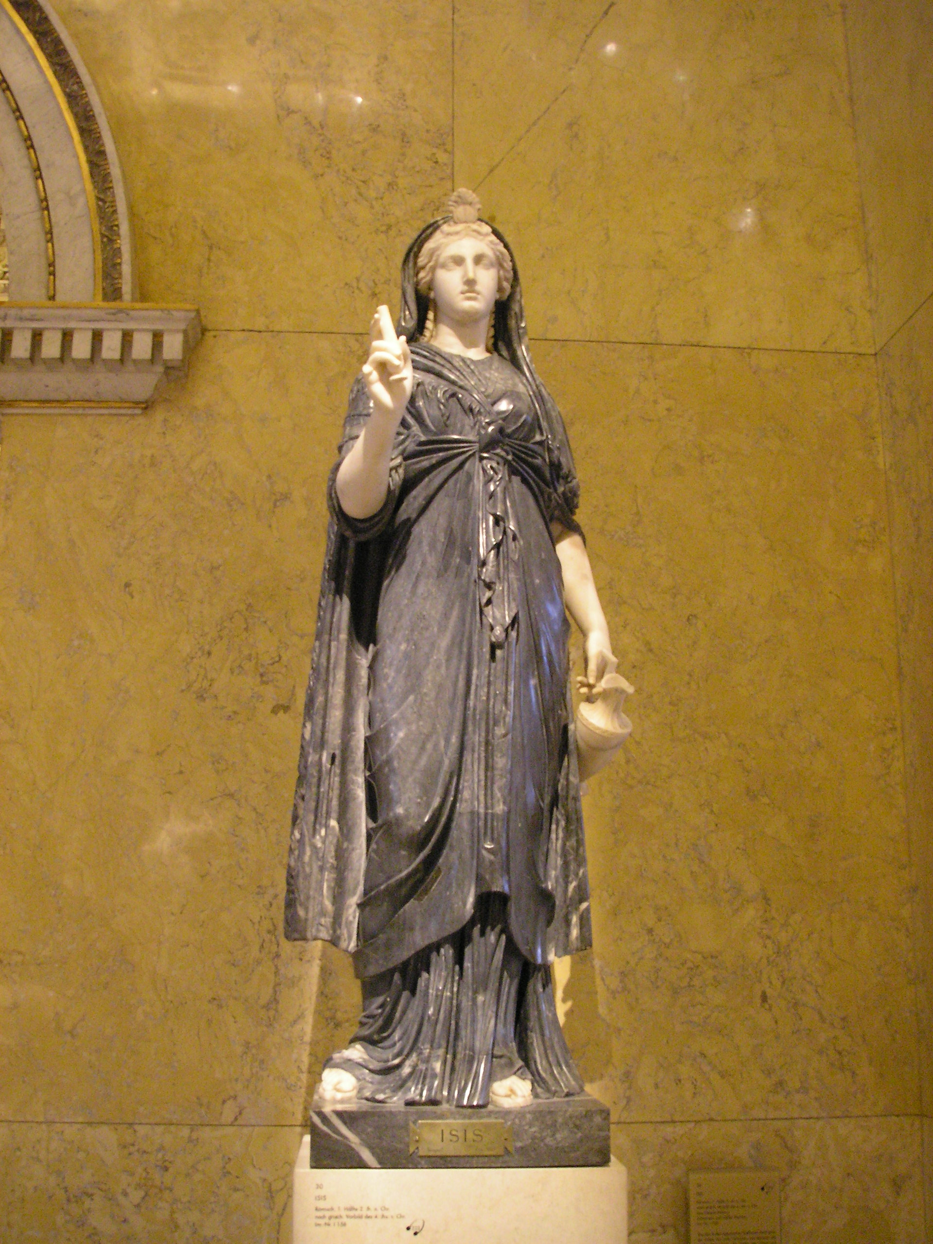 Ancient Roman statue of Isis, in the Collection of Greek and Roman Antiquities in the Kunsthistorisches Museum, Vienna. First half of the 2nd century, found in Naples, Italy. Made out of black and white marble. Inv. # 1158. Isis, originally an Egyptian goddess, was increasingly popular amongst Romans, who made her one of their own, with Roman attire, features and dress.